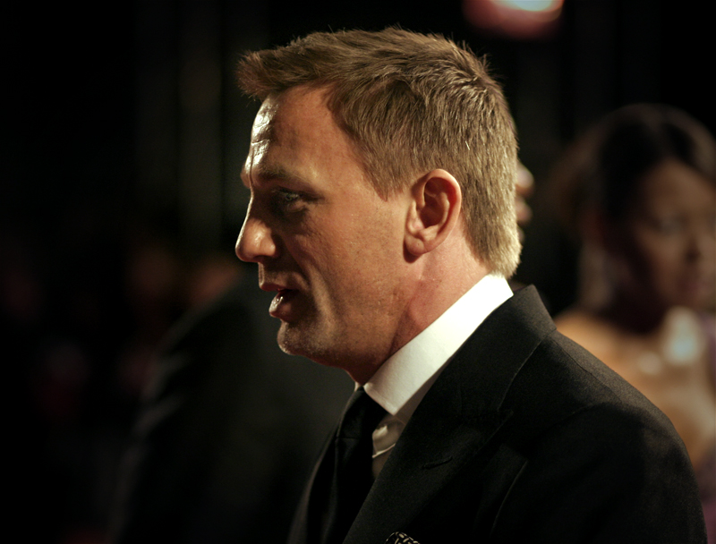 Daniel Craig at the Orange British Academy Film Awards in London's Royal Opera House